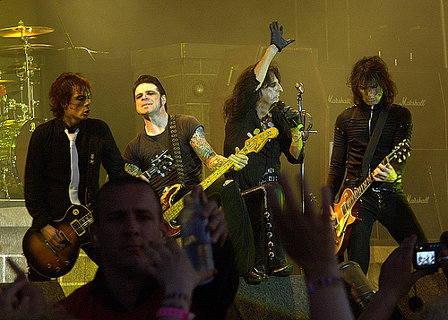 Photo of Alice Cooper band at Sweden Rock Festival 2006